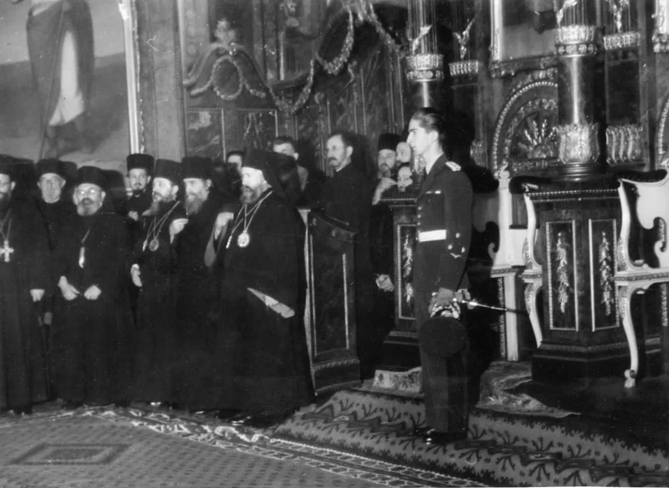 Peter II of Yugoslavia